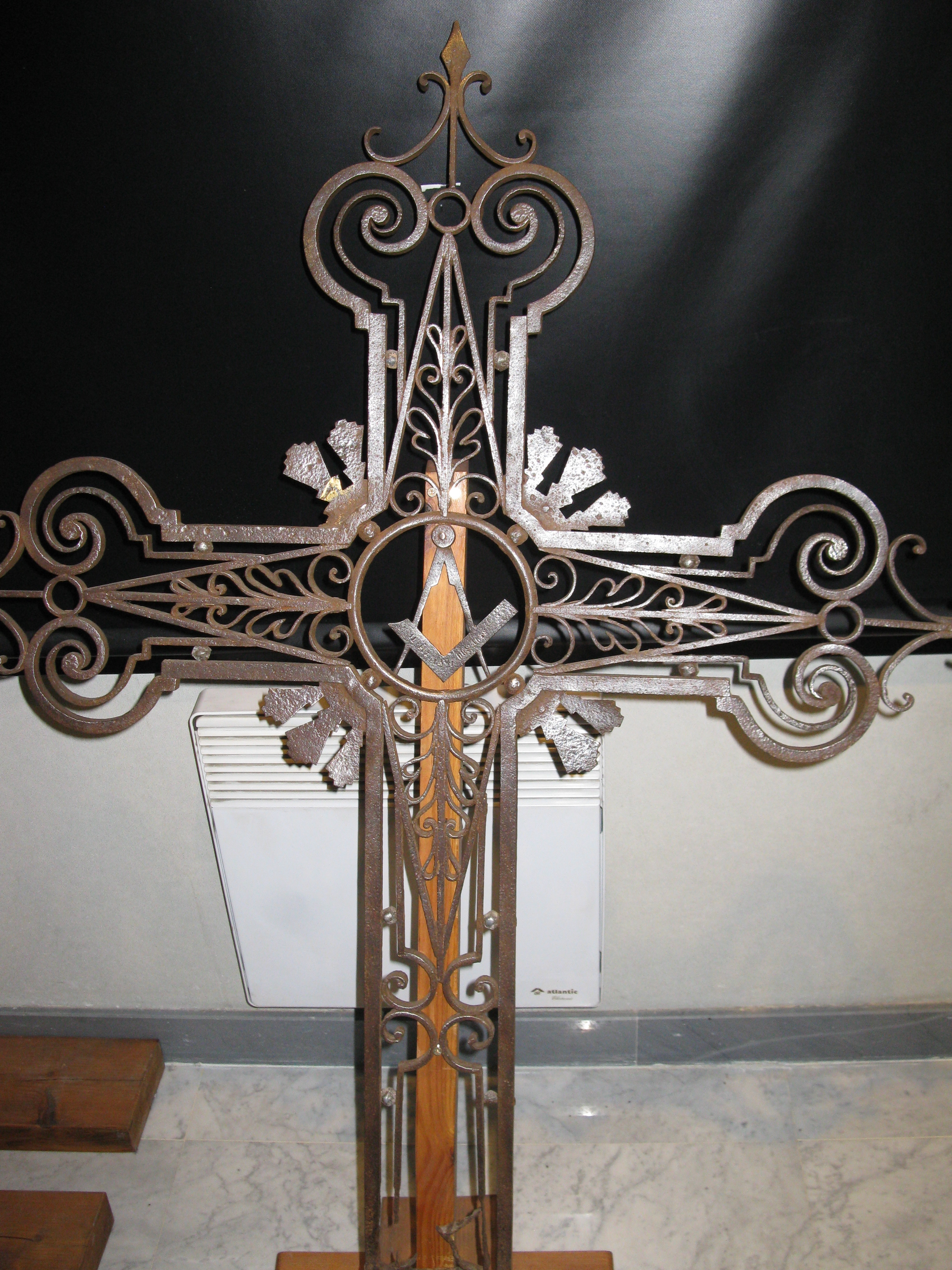 Masonic cross, GLNF museum Paris